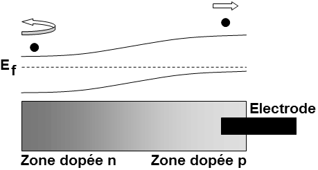 Electron Beam Current for a p-n junction.